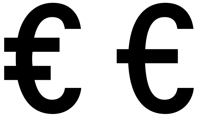 The initial proposal for adding the Euro sign to OCR-B included two design variants: One with a double stroke, another with a single stroke.